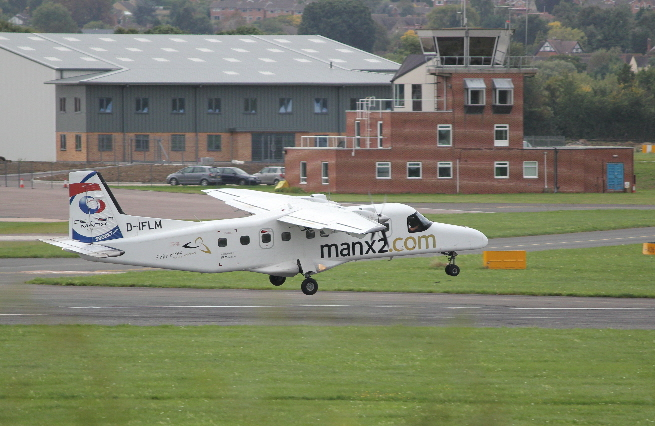 Manx 2 Dornier 228 arriving at Gloucestershire Airport 26 Sep 2010